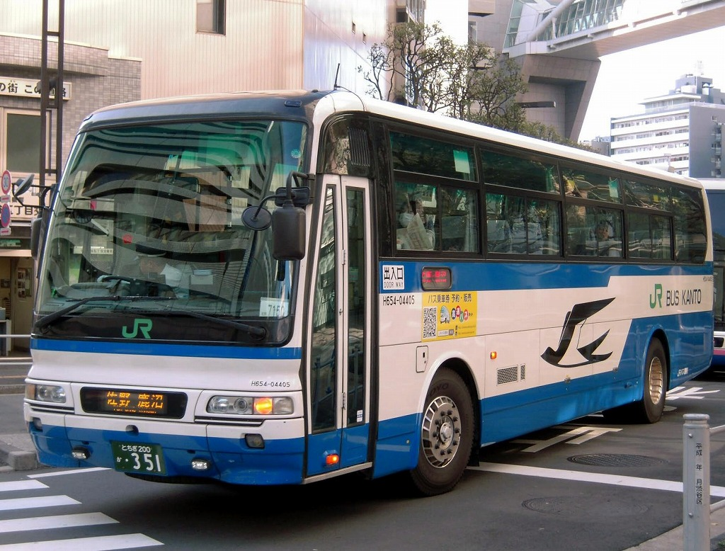 JR bus Kanto (Sano branch) Mitsubishi Fuso Aero Bus (KL-MS86MP)Highwaybus "Marronier Shinjuku"(Shinjuku - Sano,Kanuma)